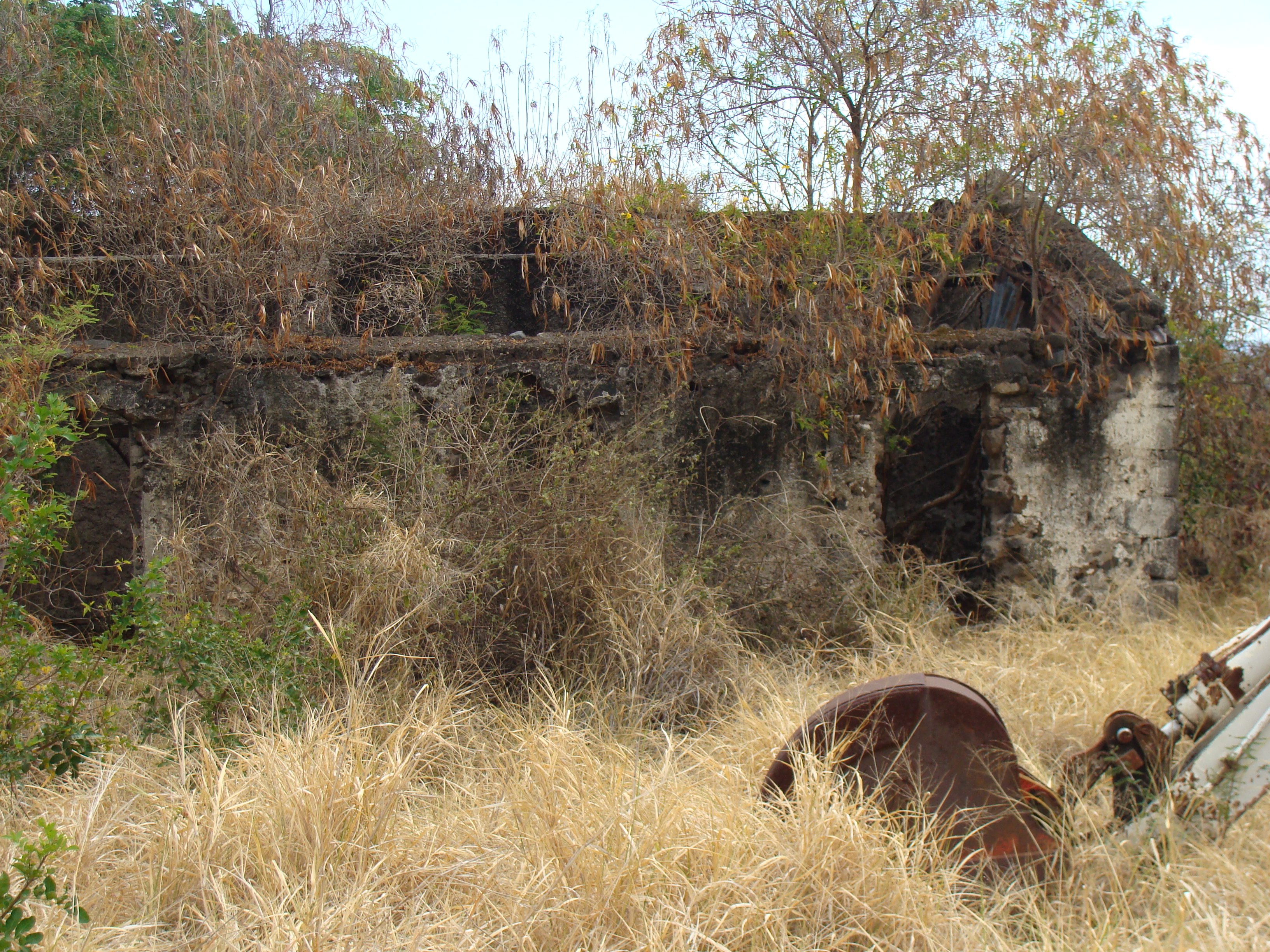 Calbanon de Saint-Louis.